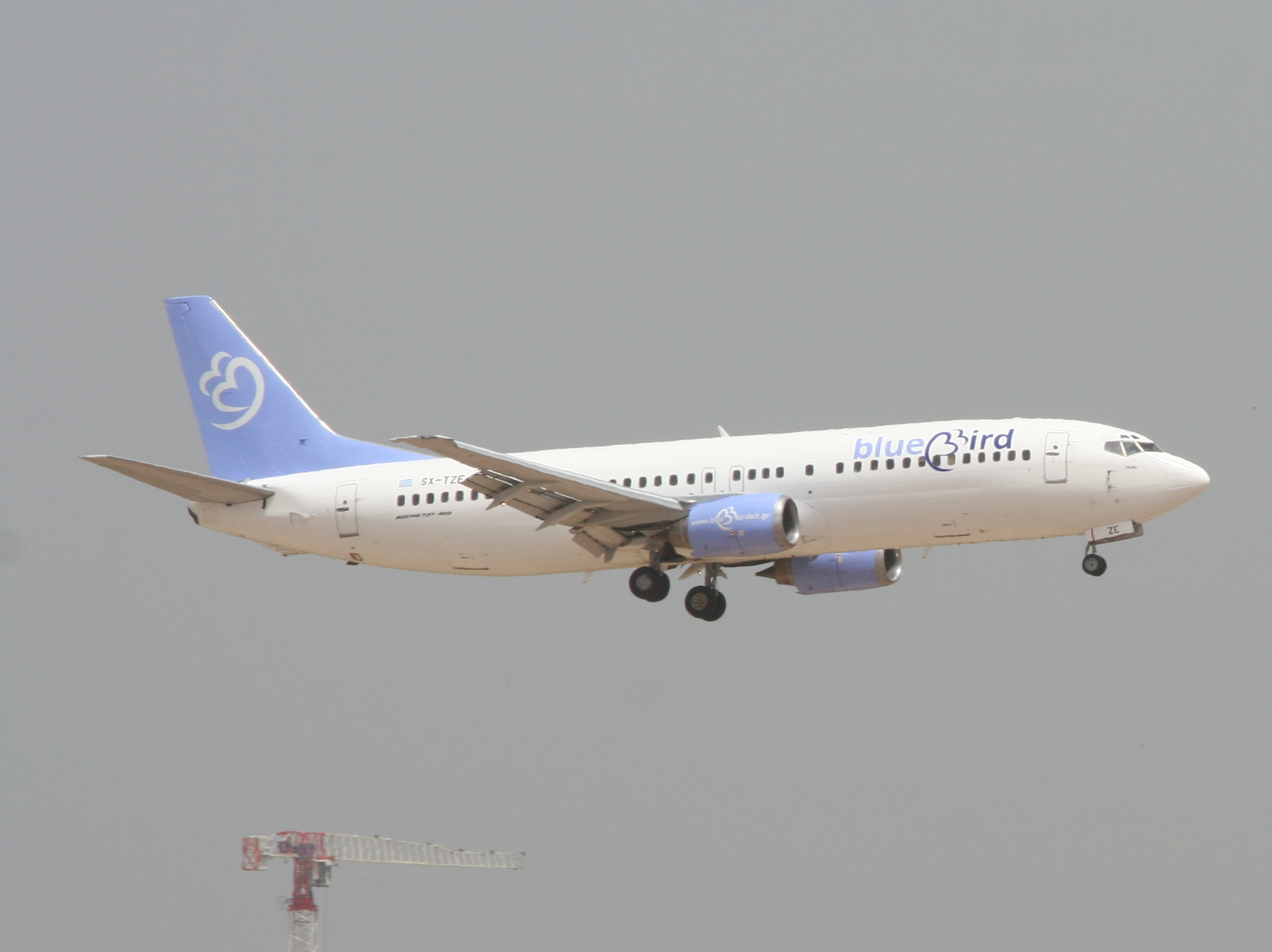 At Ben Gurion International airport